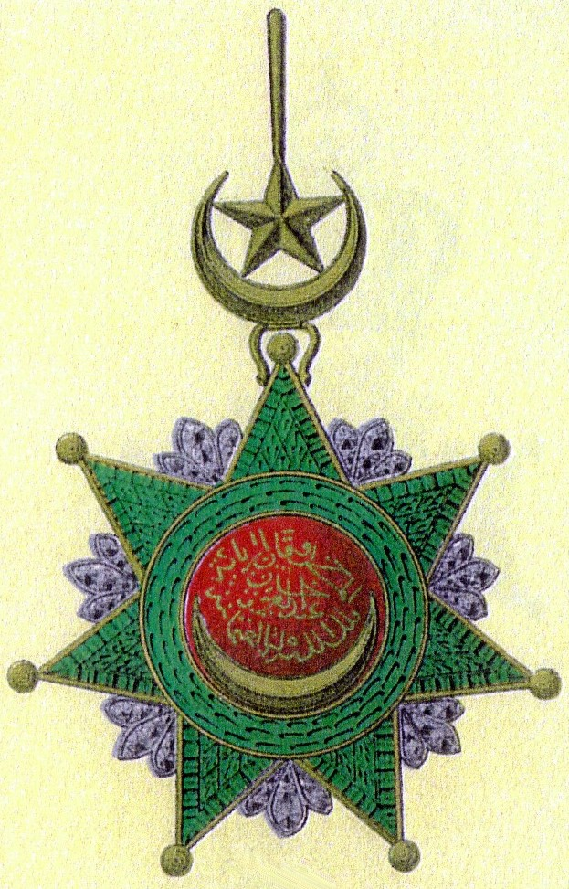 Osmanie Order (Nishani Osmani), 3rd Class, Ottoman Empire.